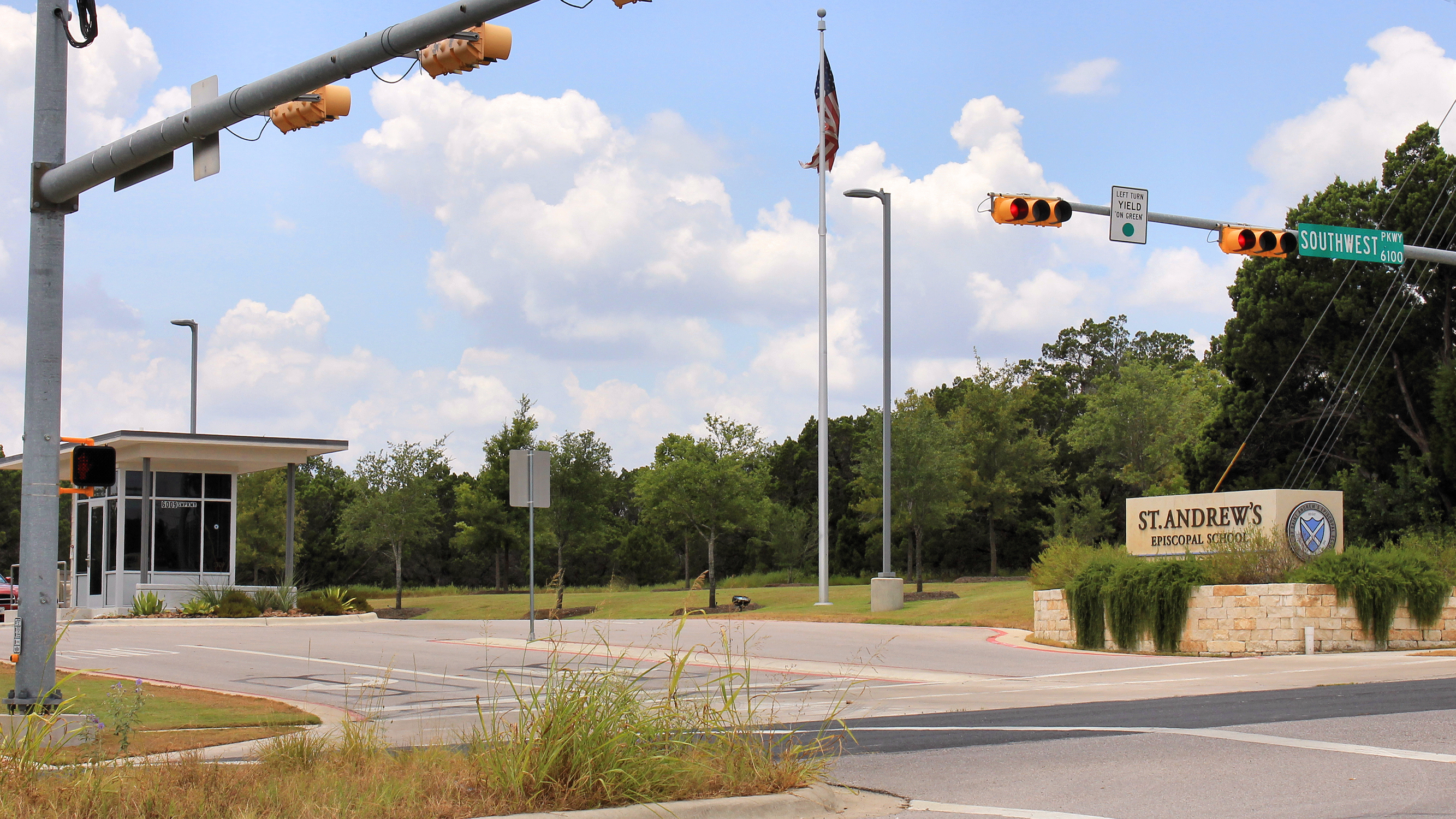 St Andrews Episcopal Upper School Entrance in Austin, Texas, United States.